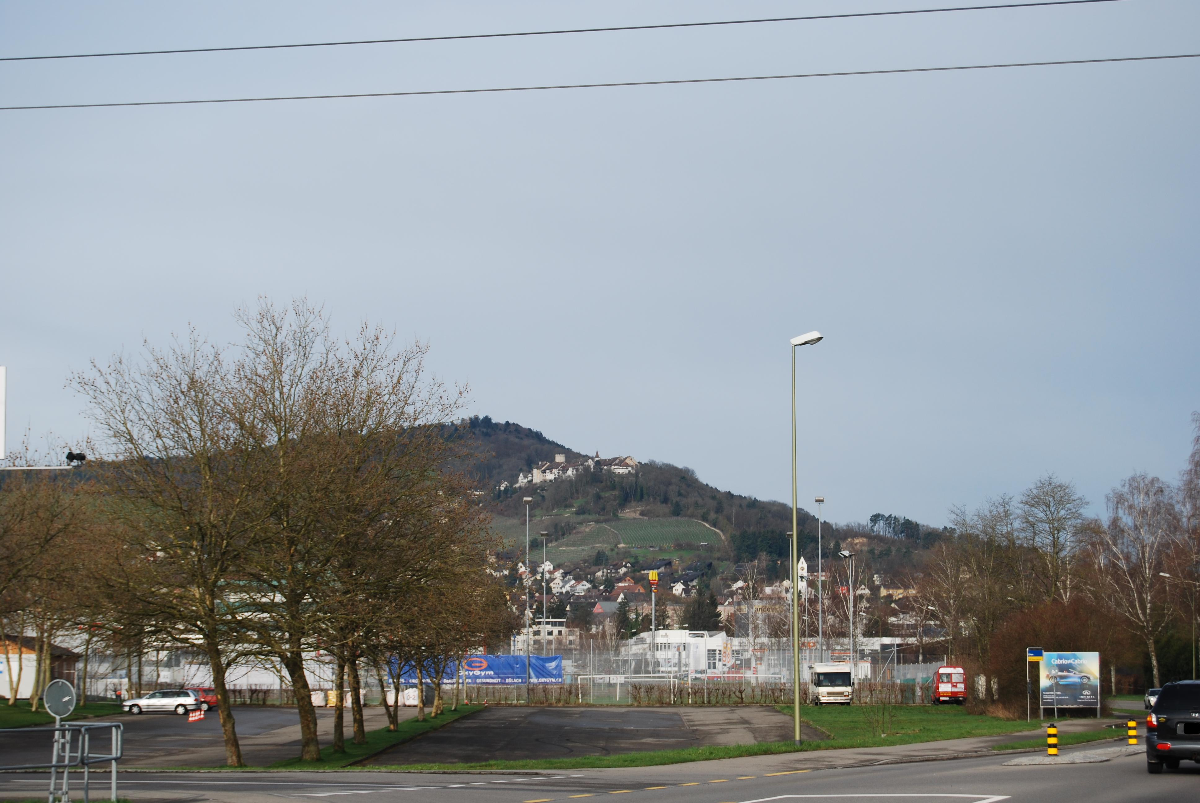 Dielsdorf and Regensberg, canton of Zürich, SwitzerlandEsperanto: Dielsdorf kaj Regensberg, Kantono Zuriko, Svislando